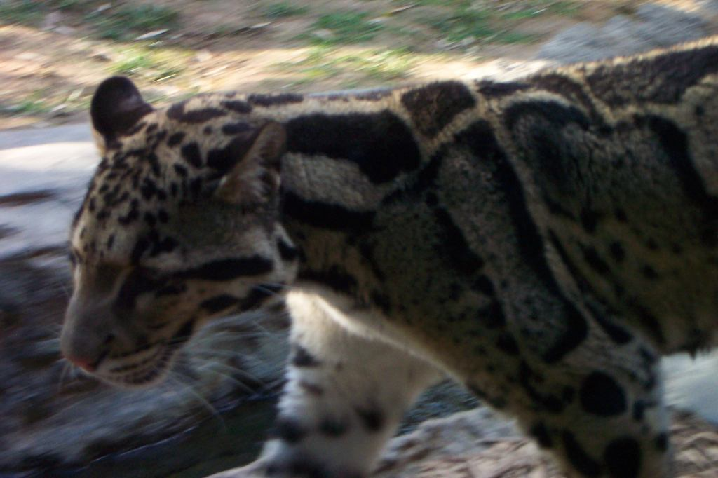 Clouded leopard at Nashville Zoo at Grassmere, Nashville, TN, USA.